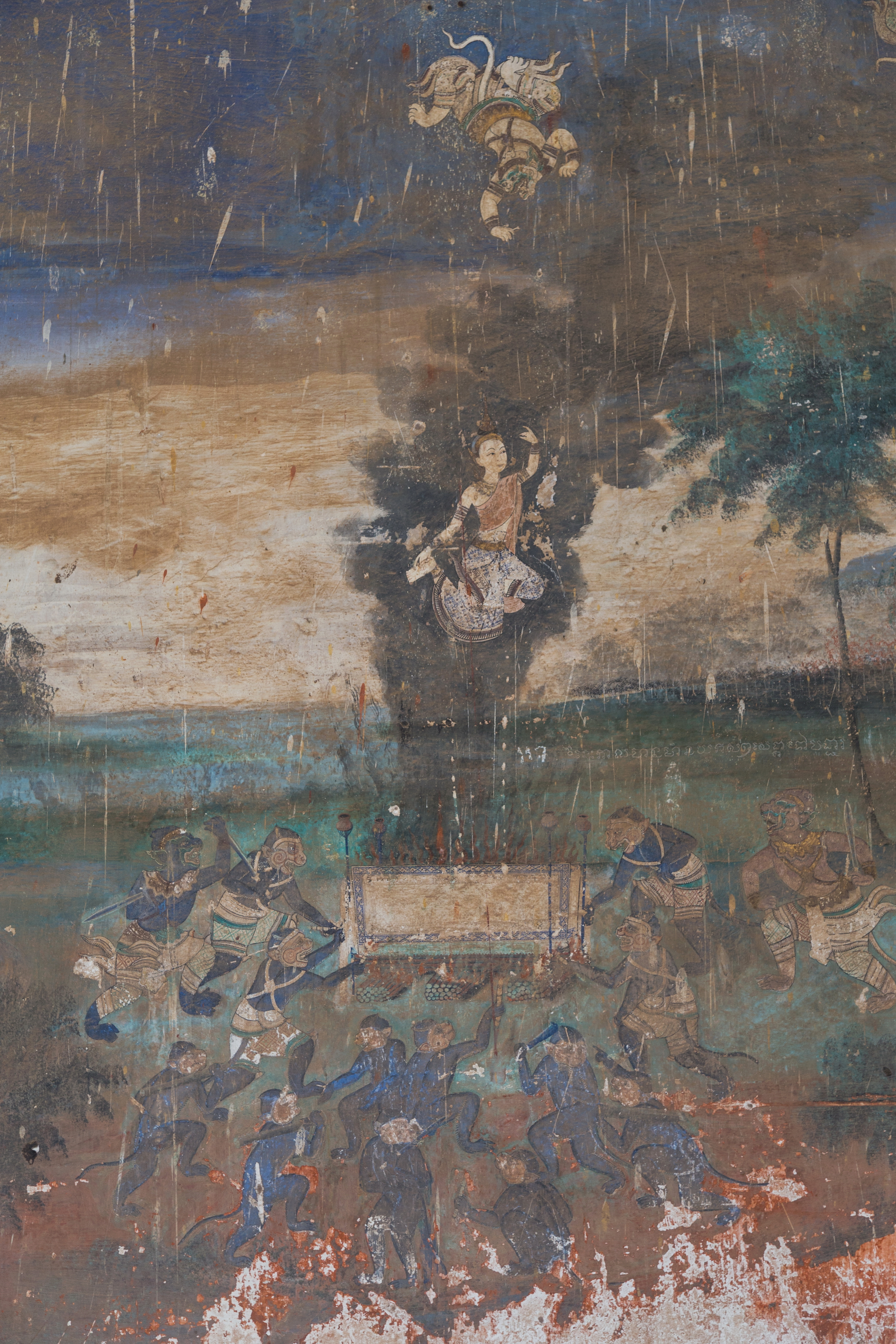 Paintings depicting scenes from the Reamker (Khmer epic poem based on the Ramayana). Royal Palace. Phnom Penh, Cambodia.